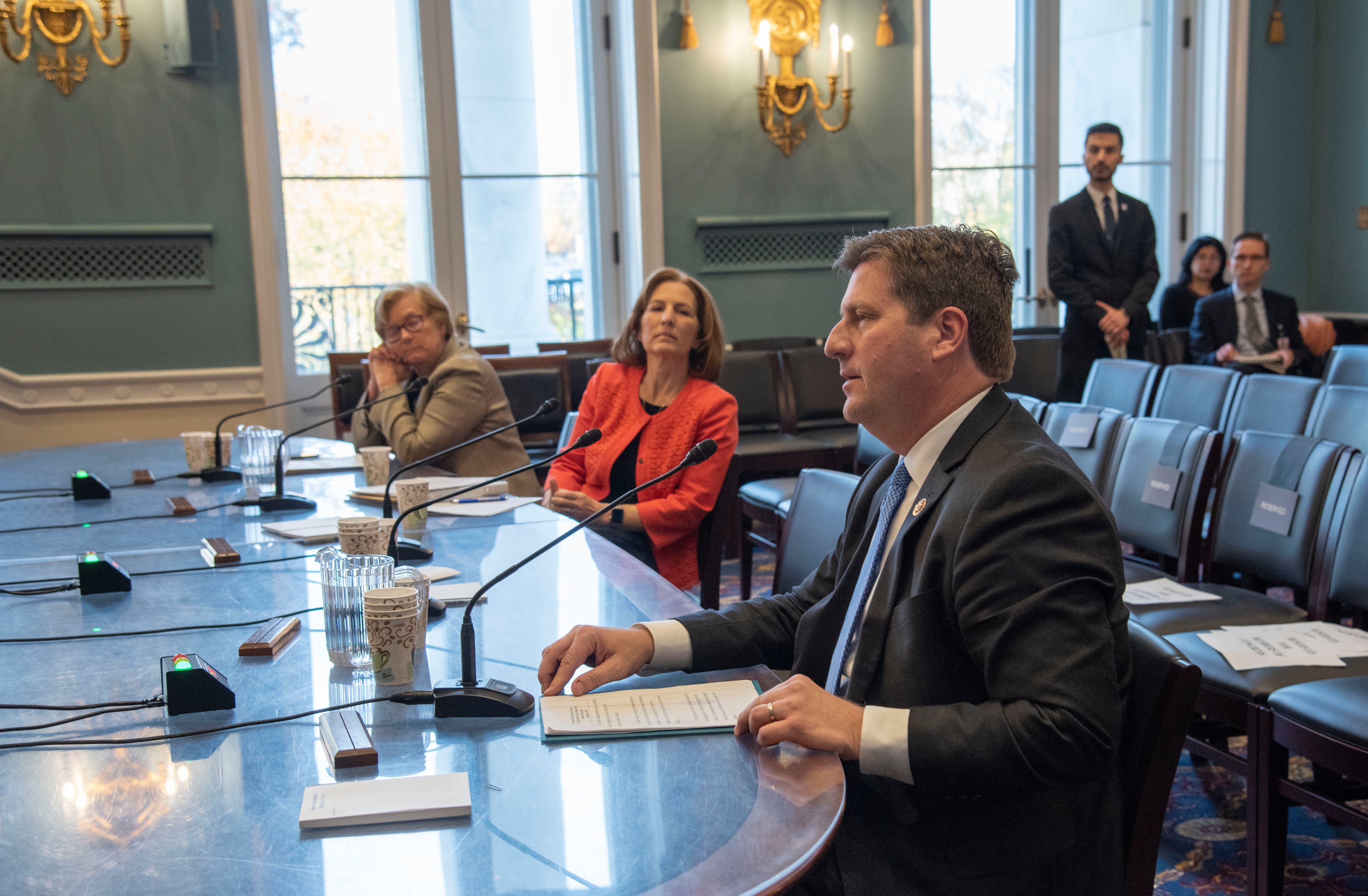 Climate change is ravaging the Southwest. We need bold action to tackle rising temps, forest fires, prolonged drought and vulnerable water supplies. Today I called on the Select Committee on @ClimateCrisis to consider policies to protect Arizona's future.